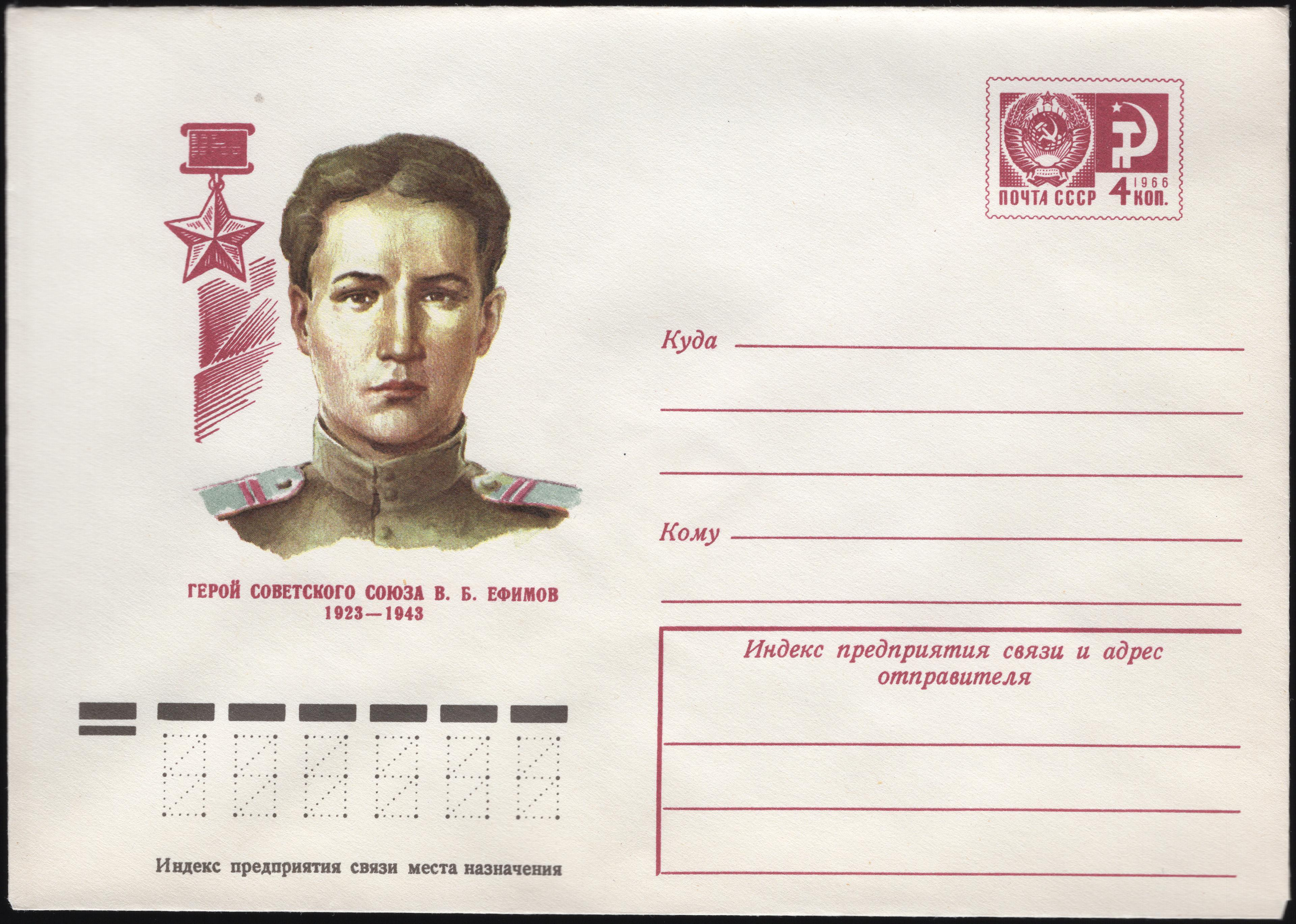 Hero of the Soviet Union Vyacheslav Yefimov. 1923-1943. Series: Heroes of the Soviet Union. Artist Bronfenbrener Yu.